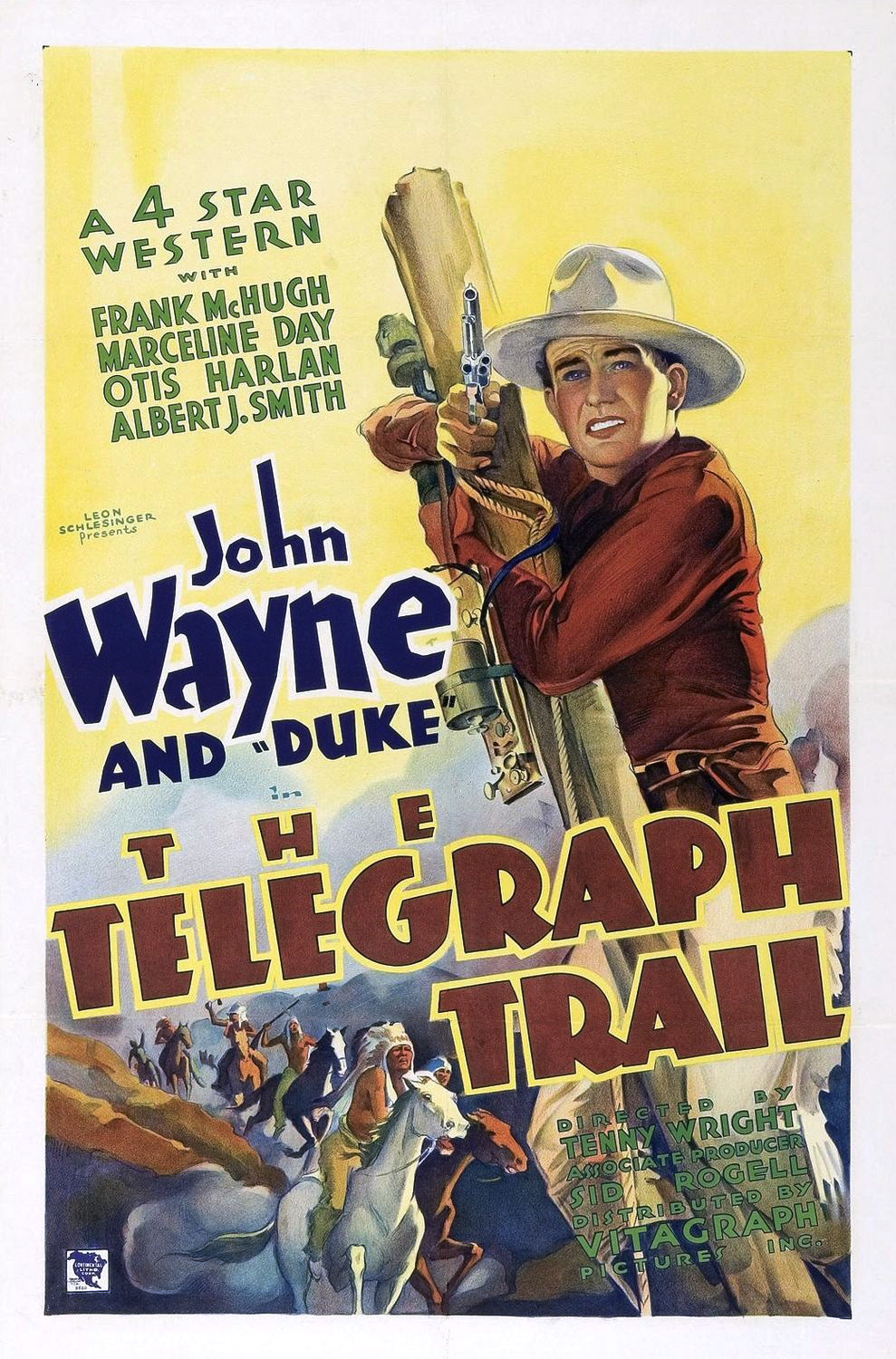 Poster for the 1933 film The Telegraph Trail. The item has no copyright markings on it as can be seen in the links above.